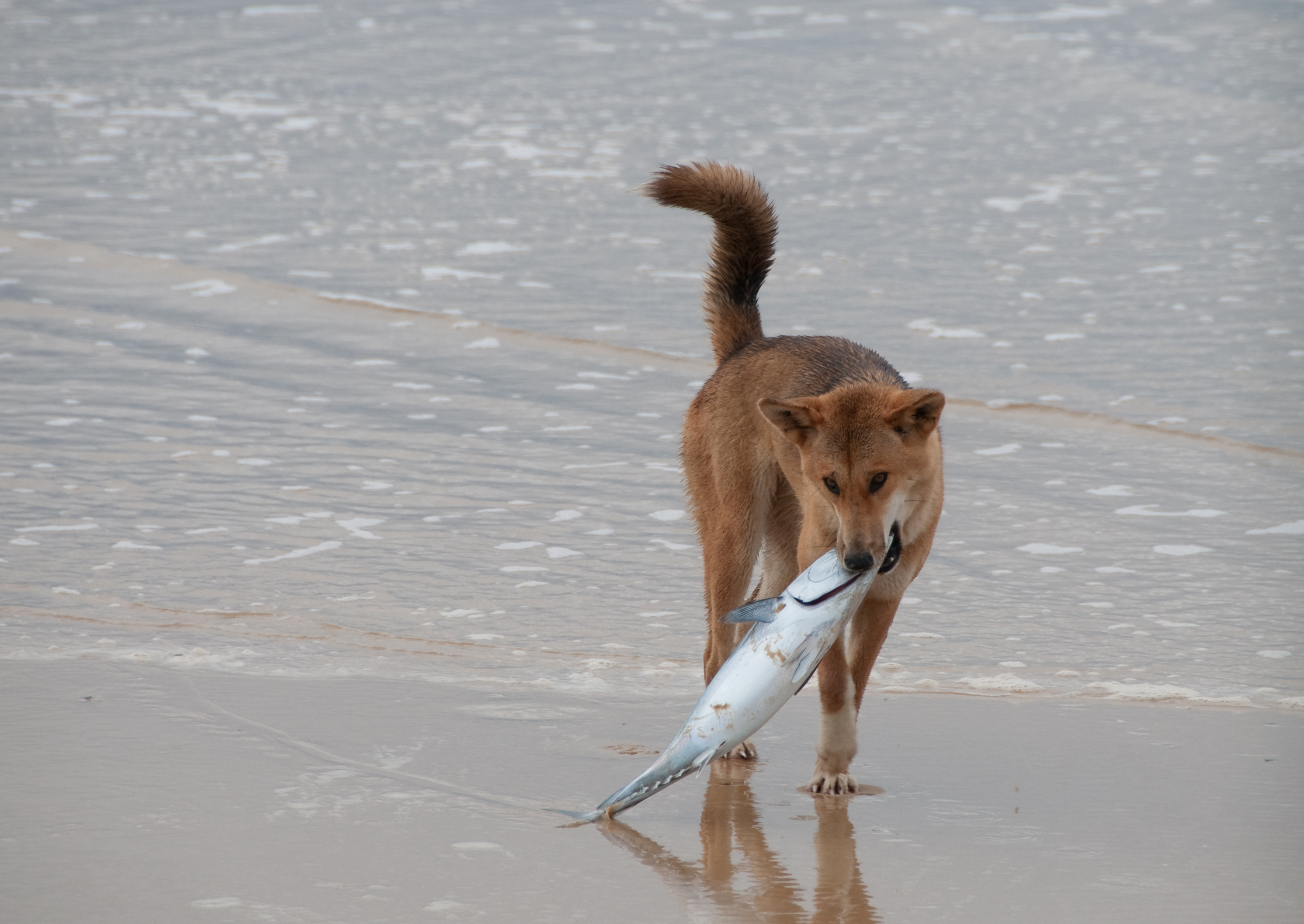 A dingo catches a fish